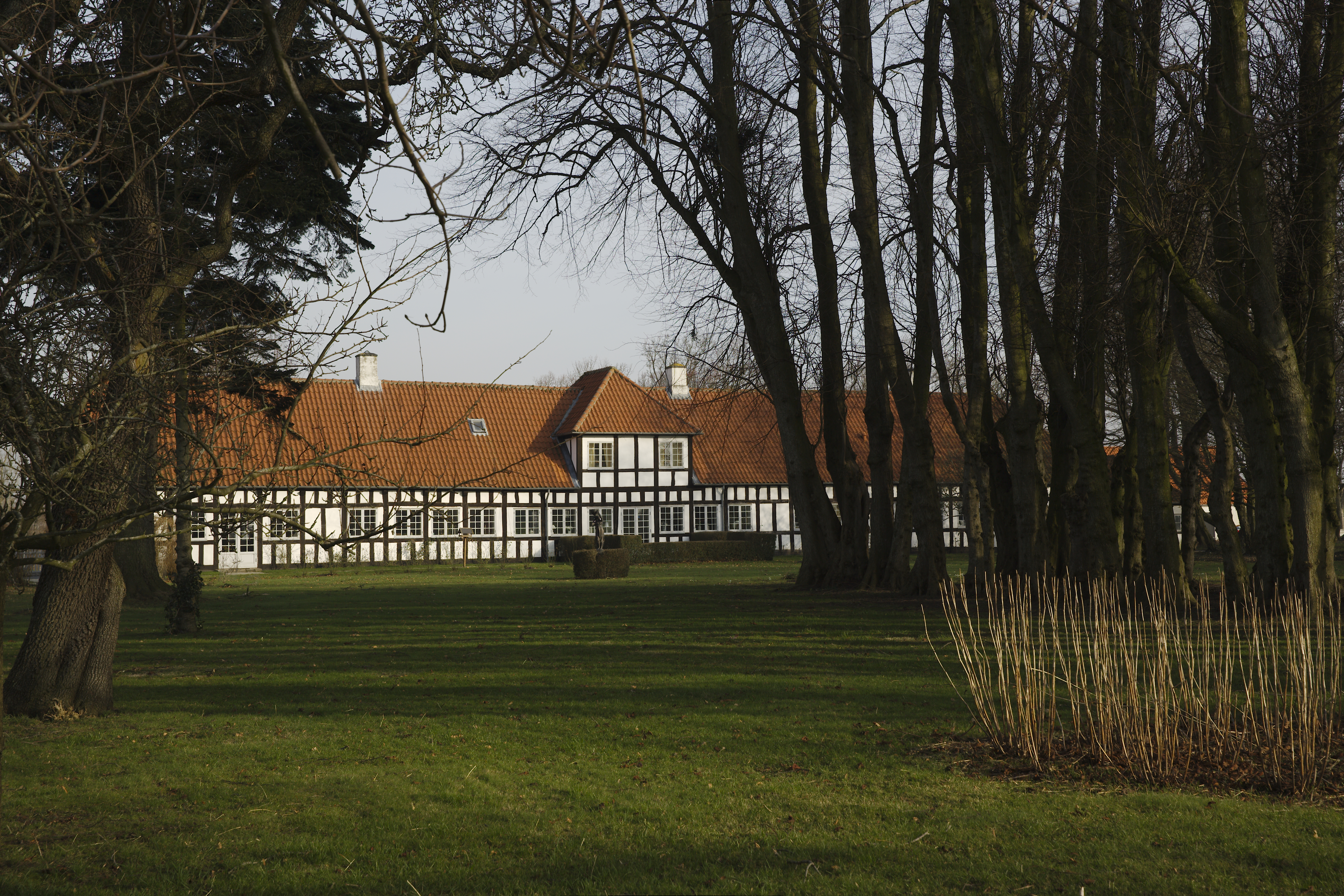 Clergy house in Astrup